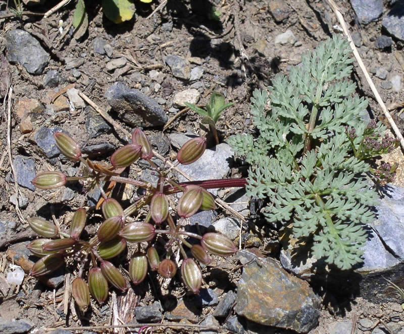 Lomatium erythrocarpum USFS photo by USFS staff